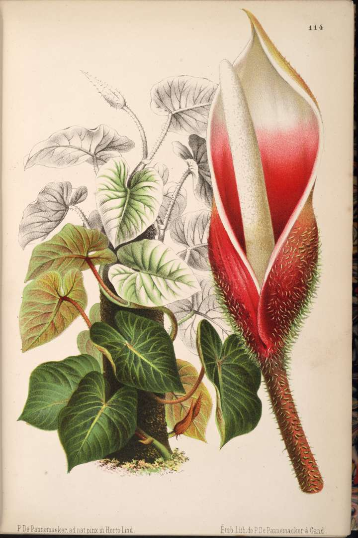 Philodendron verrucosum, as Philodendron daguense